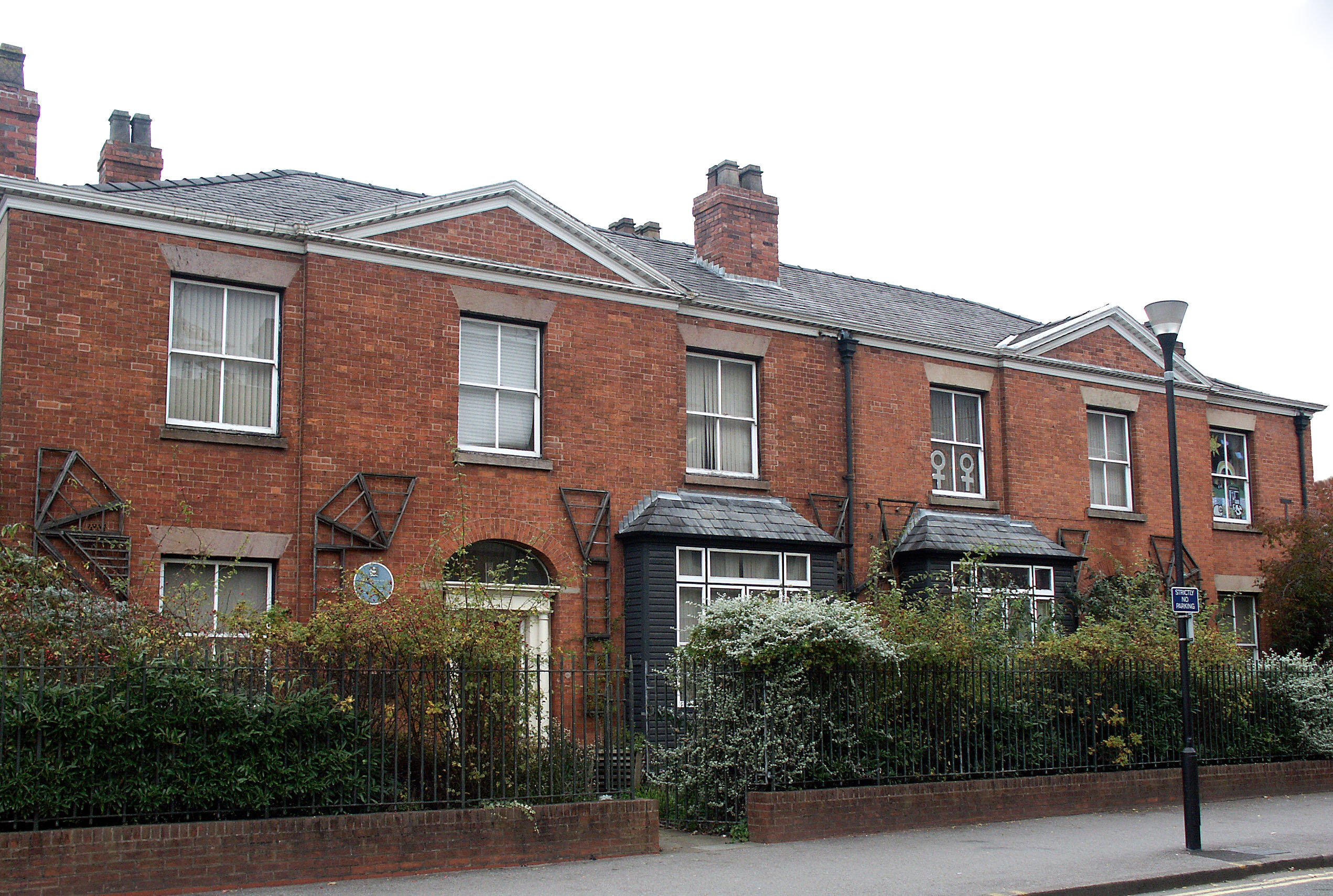 The Pankurst Centre Grafton Street, Manchester UK